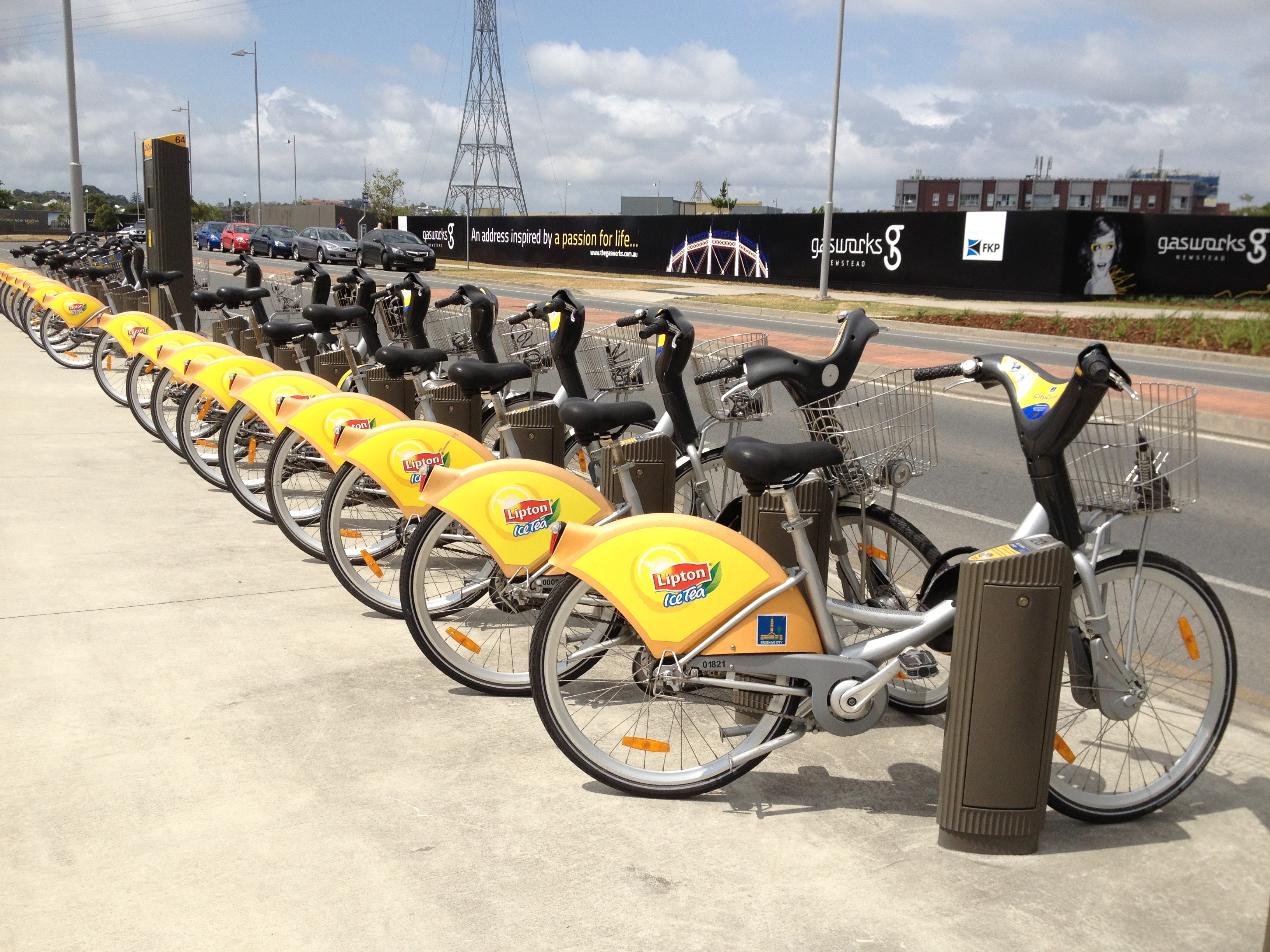 CityCycle in Newstead, Queensland